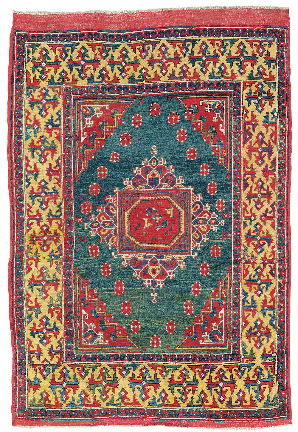 Lot 306 – A West Anatolian ‘Ghirlandaio’ Rug, late 17th century. Minor light localised wear, a repaired tear and reweave to one side, a few minute cobbled repairs otherwise very good condition. 6ft.11in. x 4ft.8in. (210cm. x 141cm.) £40,000-60,000 .